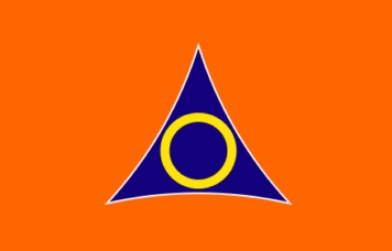 Flag of Ora Gunma